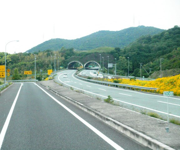 Miyatown Kizu Narutocity Tokushimapref Takamatsu highway